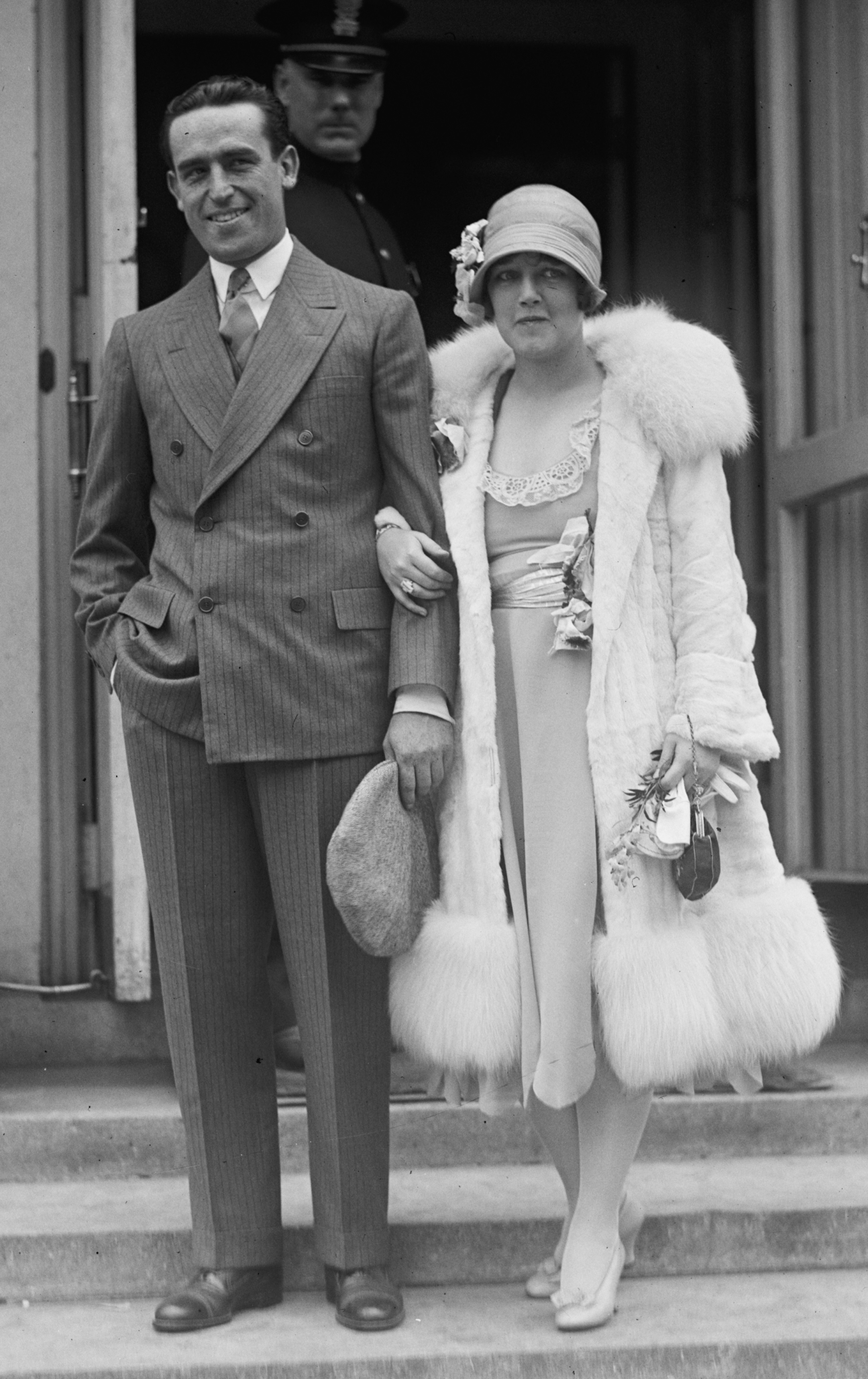 American movie actor Harold Lloyd and his wife Mildred Davis